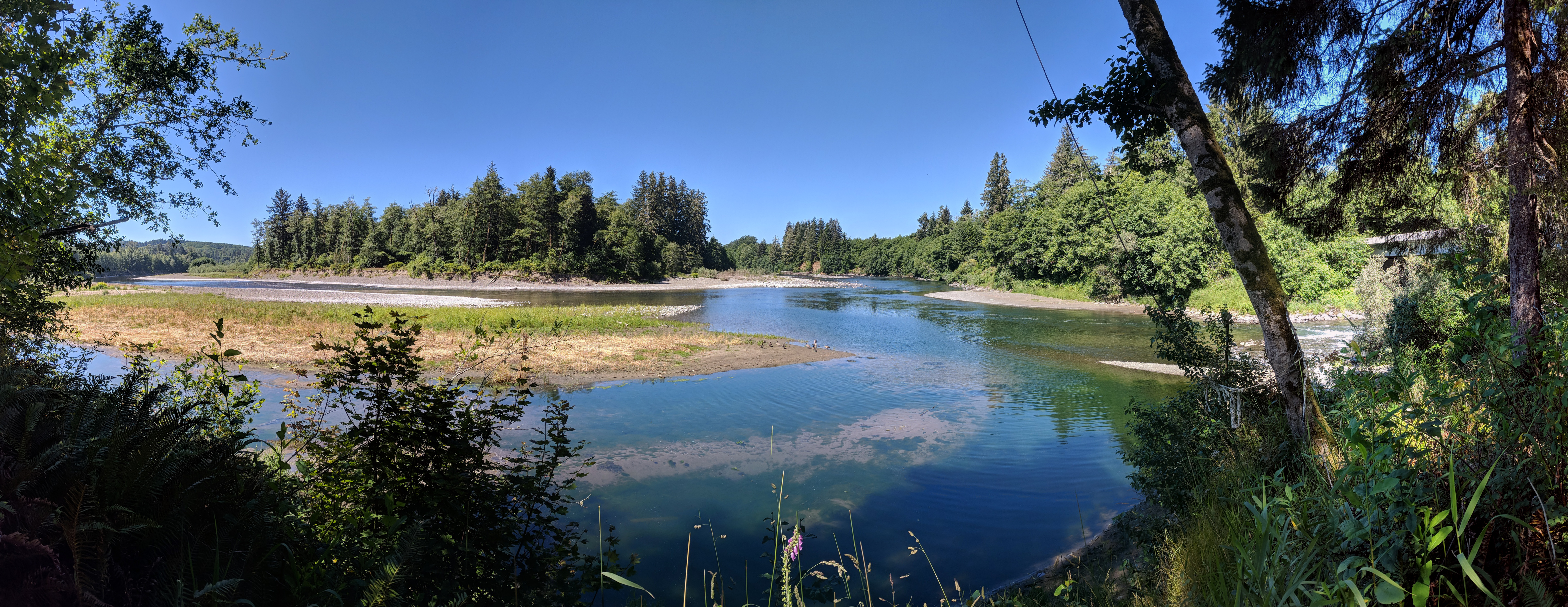 Panoramic view, from Leyendecker Park, of the confluence of the Bogachiel River (left and center) and the Sol Duc River (right) to form the Quillayute